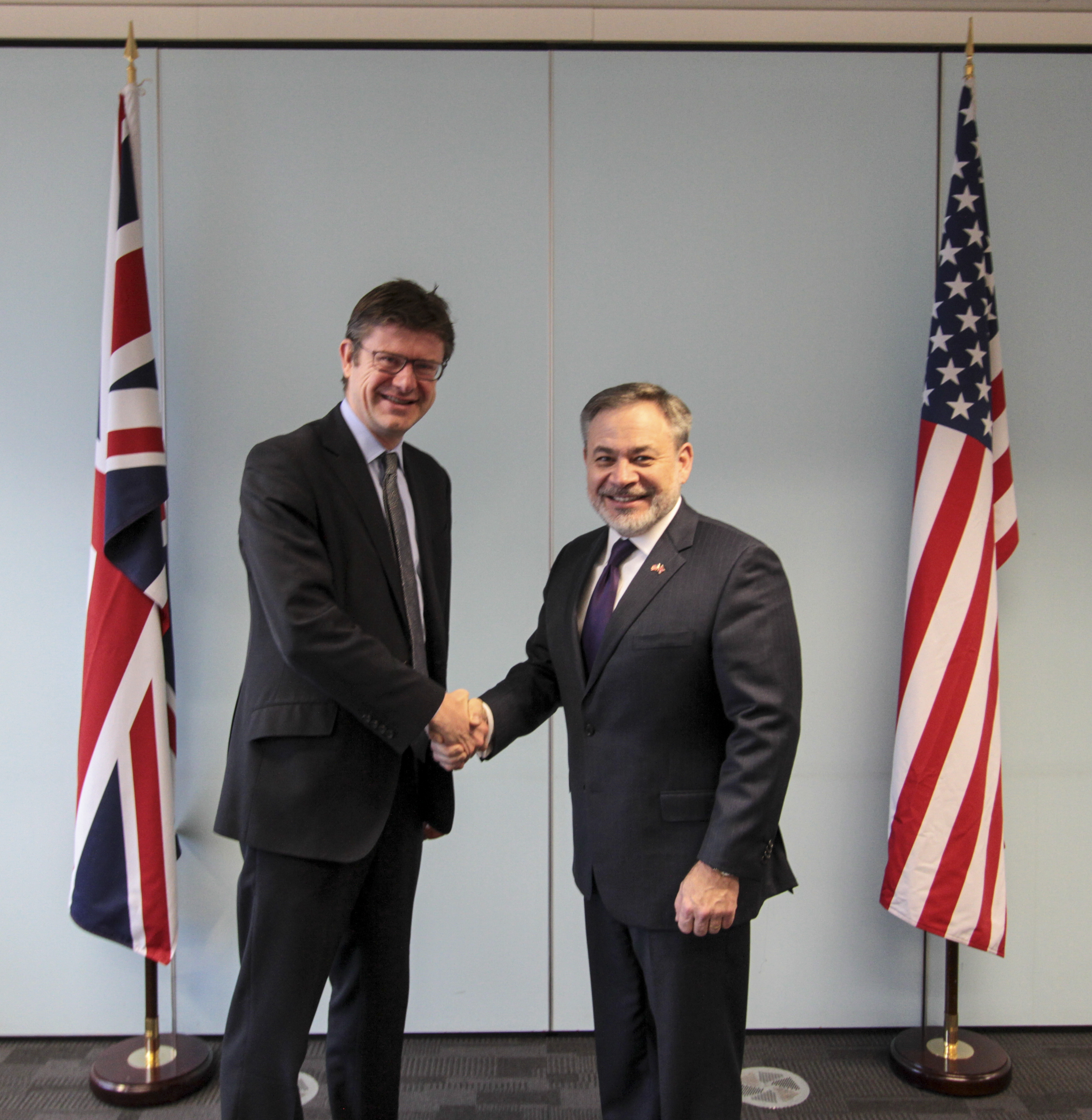 United States Deputy Secretary of Energy Dan Brouillette visits London, Feb 2018